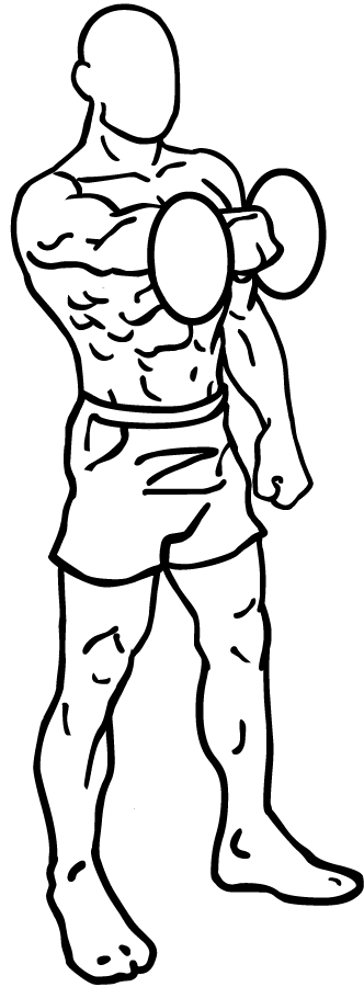 an exercise of shoulders